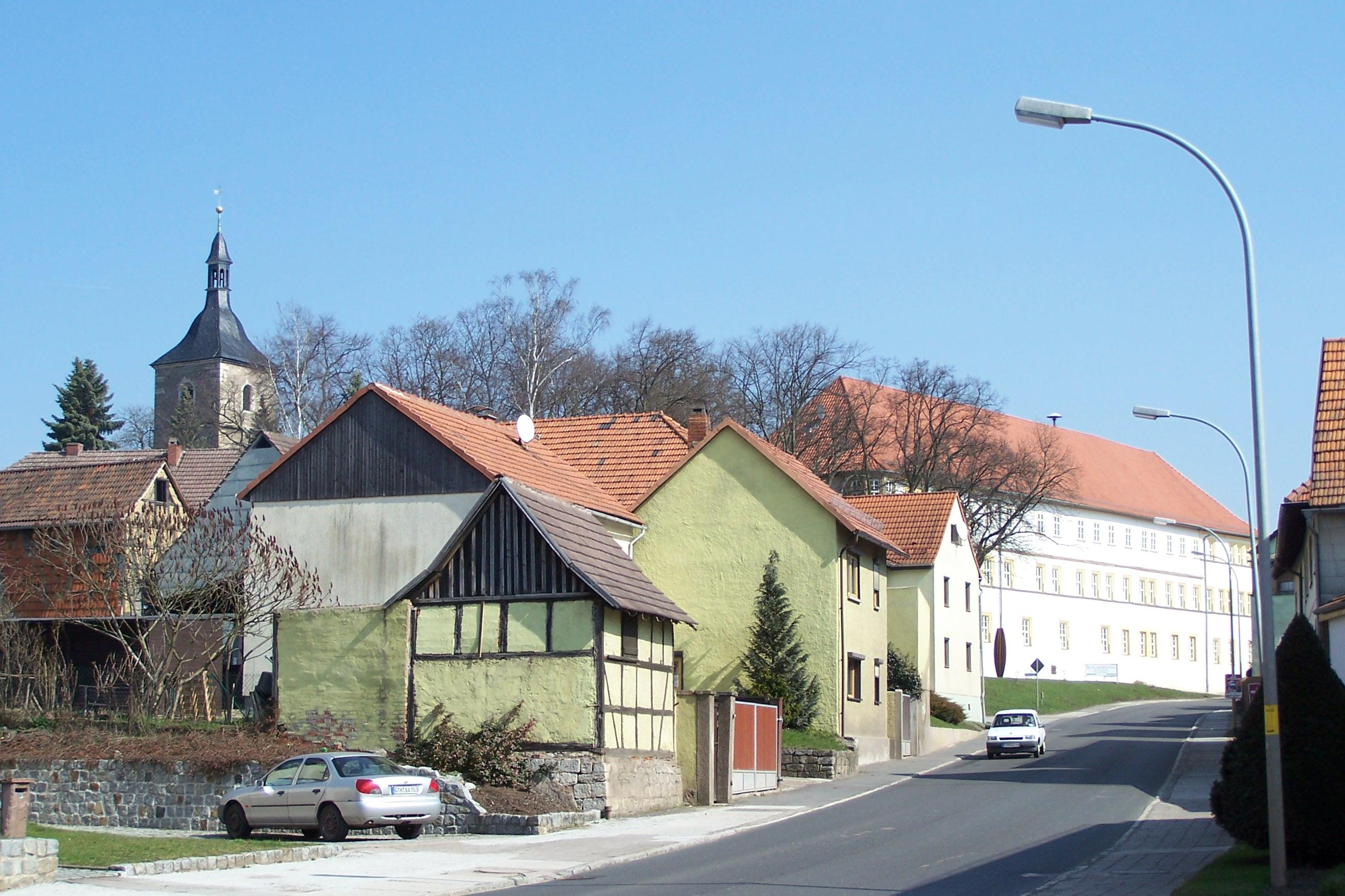 In Behringen village.